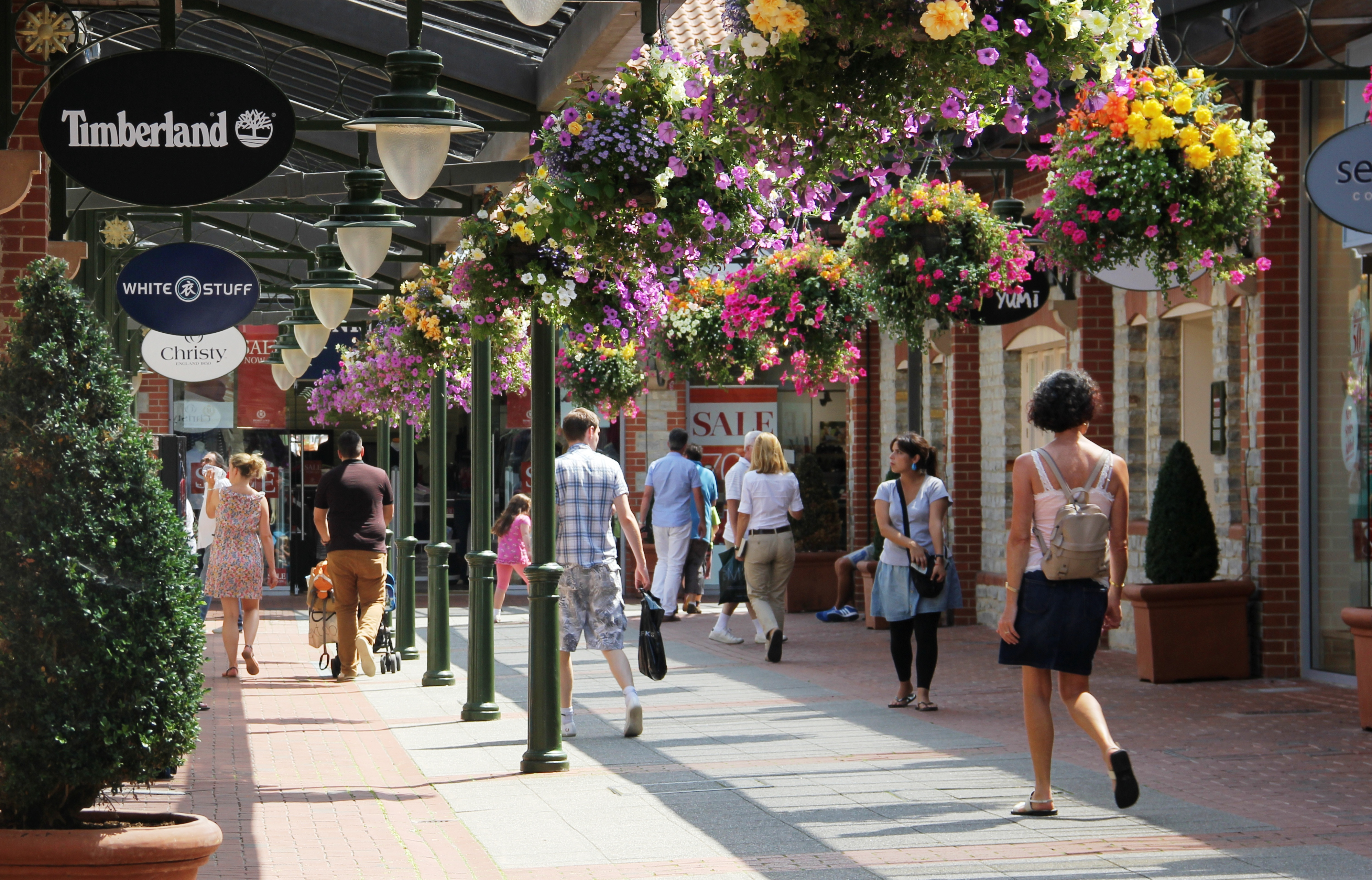 Traditional paved walkways and village setting with shops down either side.